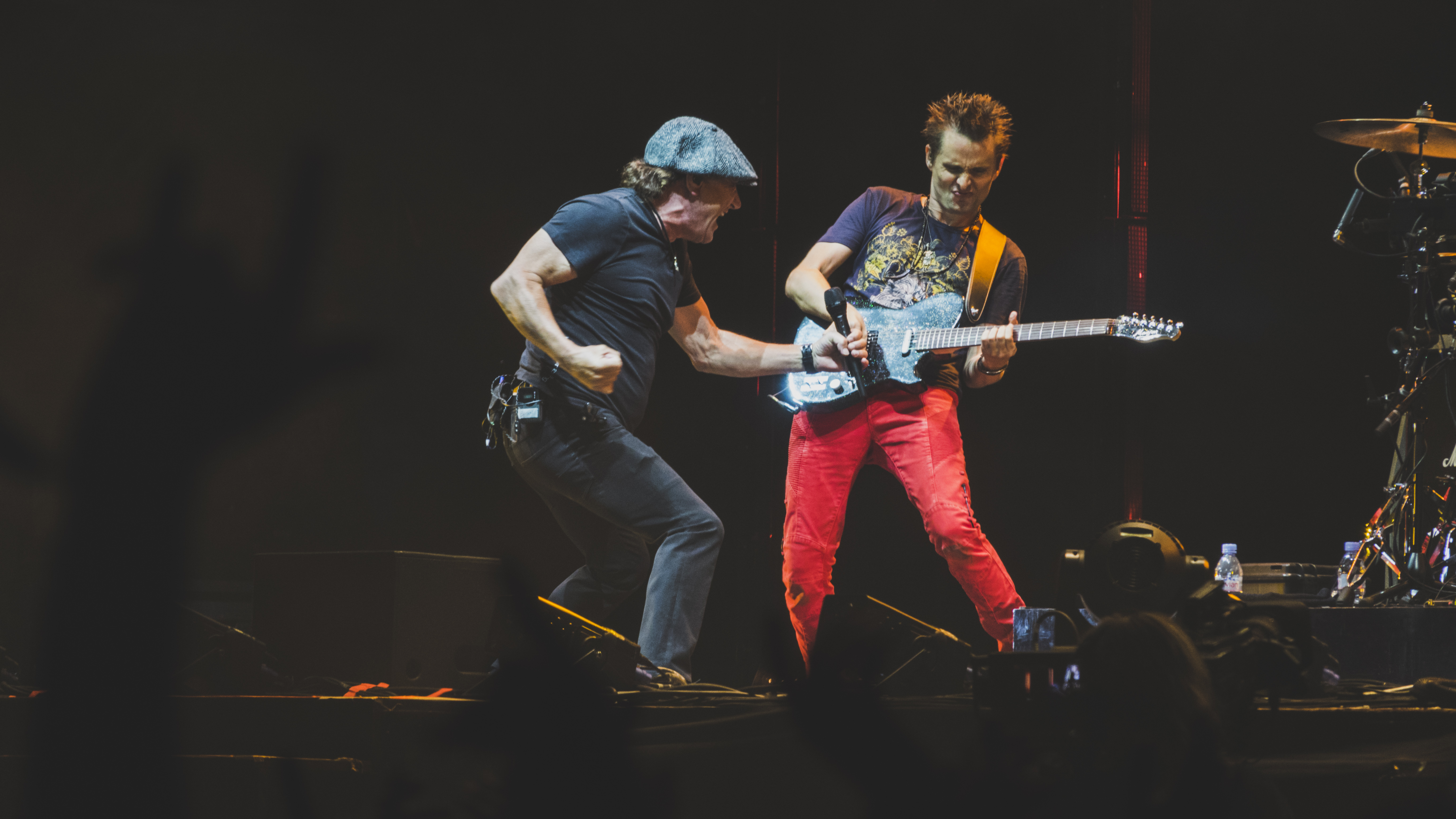 Performance of the English rock band Muse at Reading Festival 2017.